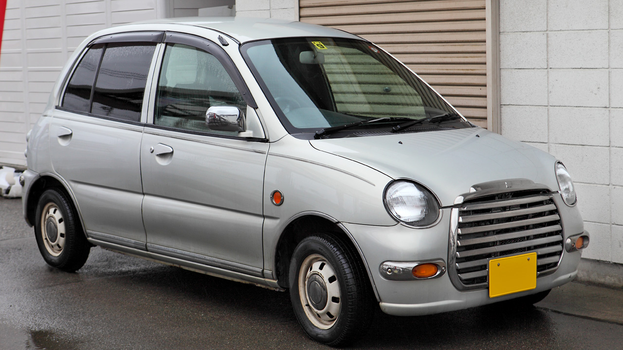 7th generation Mitsubishi Minica Town Bee ( H31A )